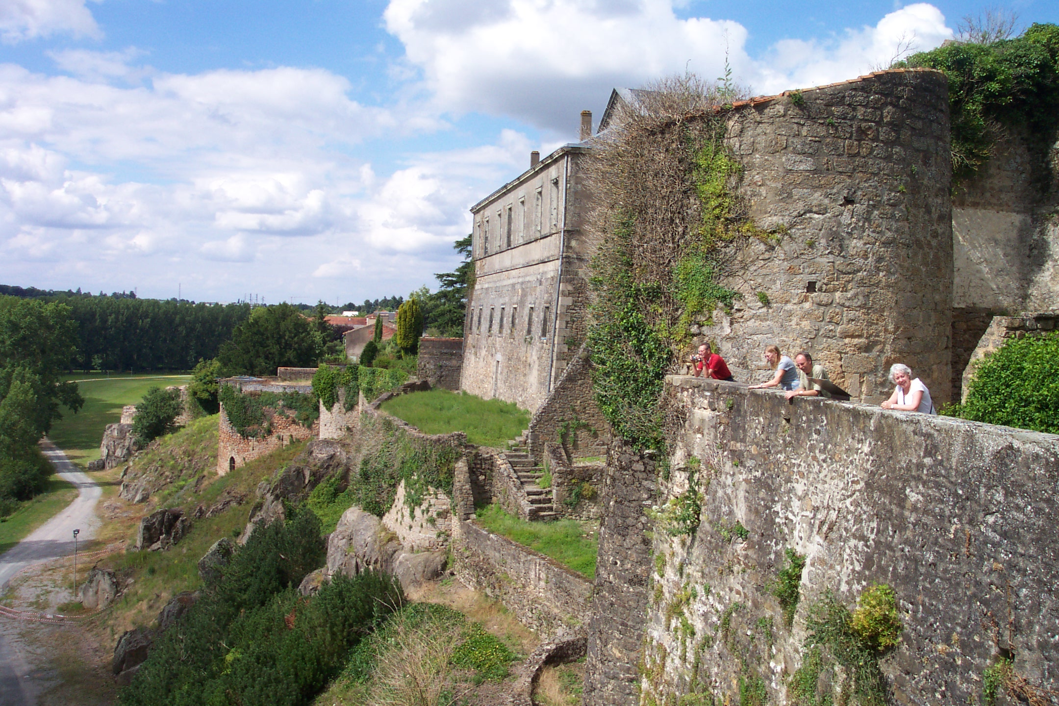 The battlements of the citadel in Parthenay. The building on the battlements is the rear of the town's law courts.